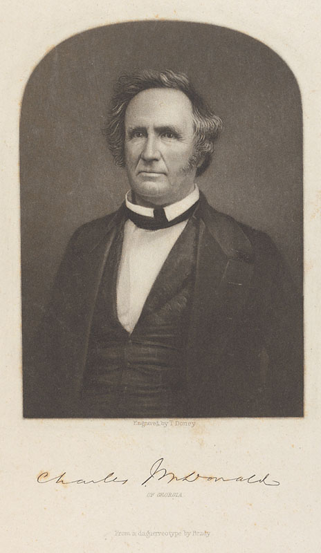 Charles James McDonald (1793-1860)